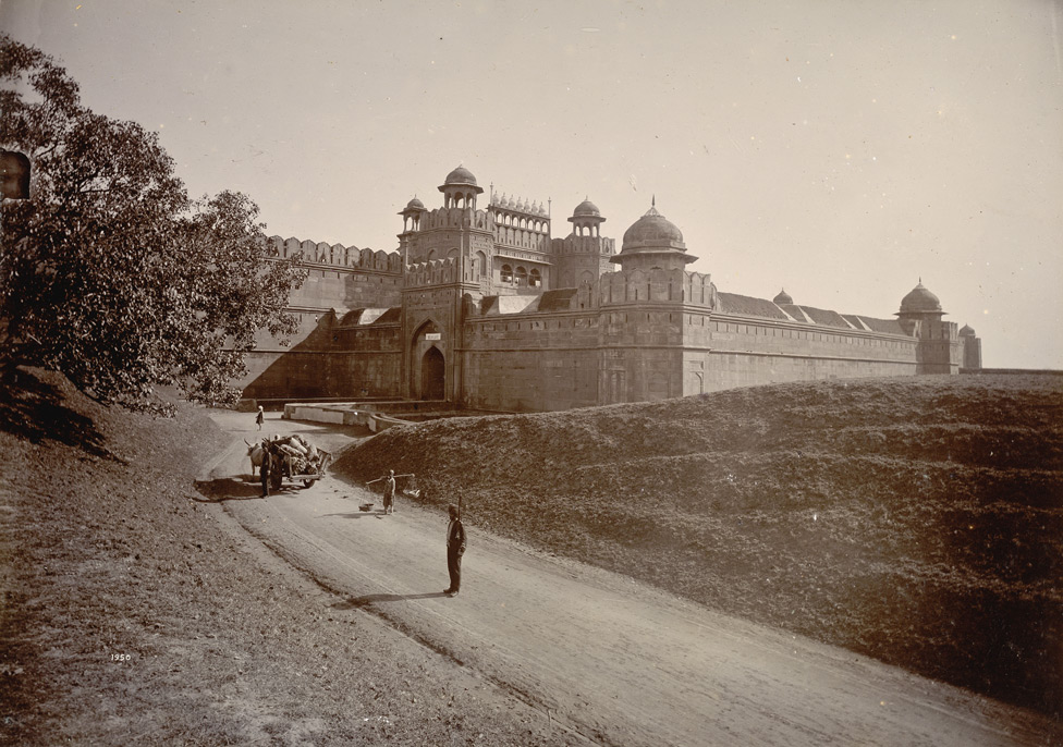 Photograph of the Delhi Gate at the Red Fort in Delhi from the Curzon Collection, taken by Lala Deen Dayal in the 1890s, from the Curzon Collection: 'Views of places proposed to be visited by Their Excellencies Lord & Lady Curzon during Autumn Tour 1902'. This file has been provided by the British Library from its digital collections. This tag does not indicate the copyright status of the attached work. A normal copyright tag is still required. See Commons:Licensing for more information.